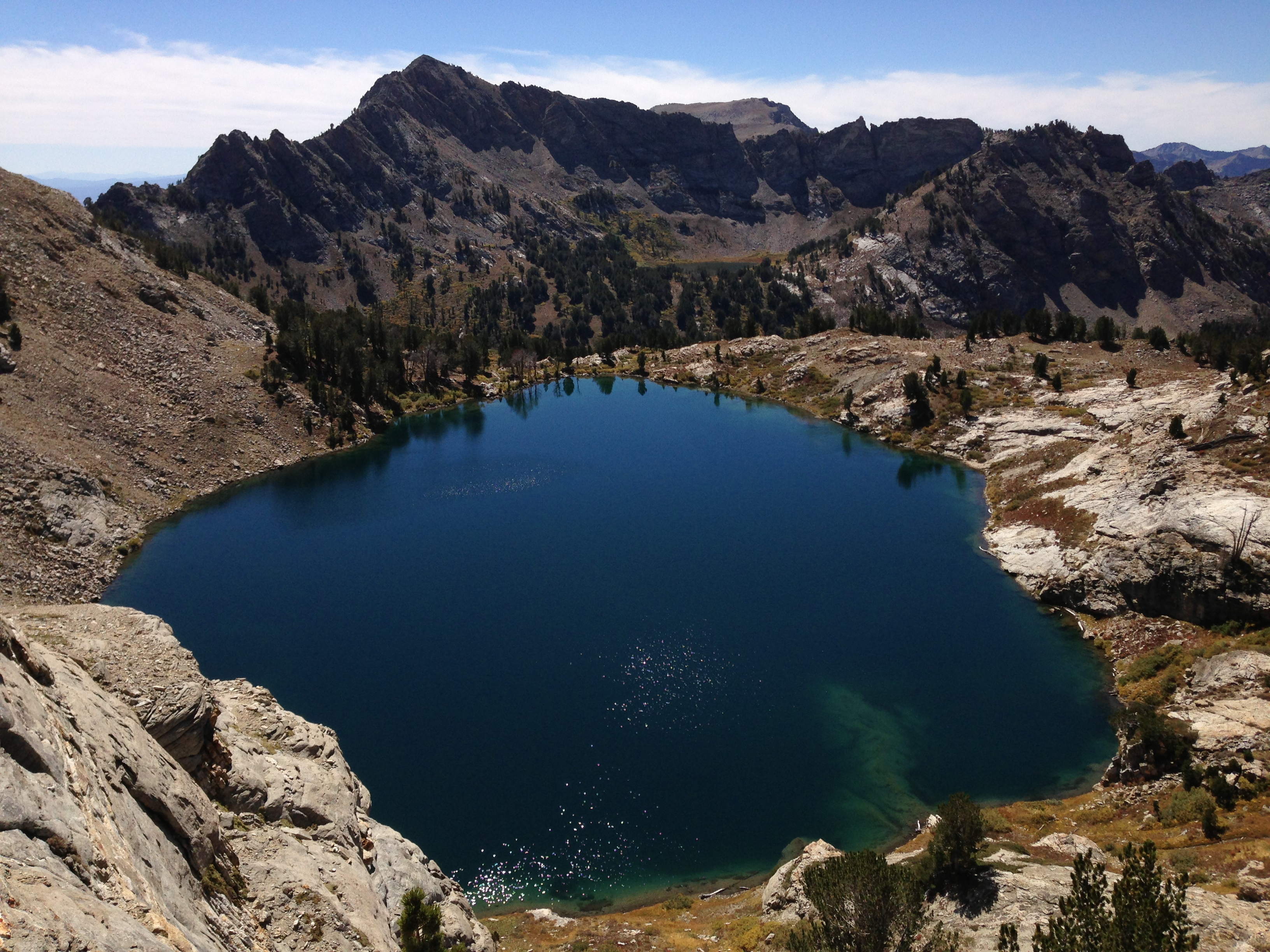 View of Liberty Lake from about 10380 feet along the Ruby Crest National Recreation Trail in Kleckner Canyon on September 18th 2013